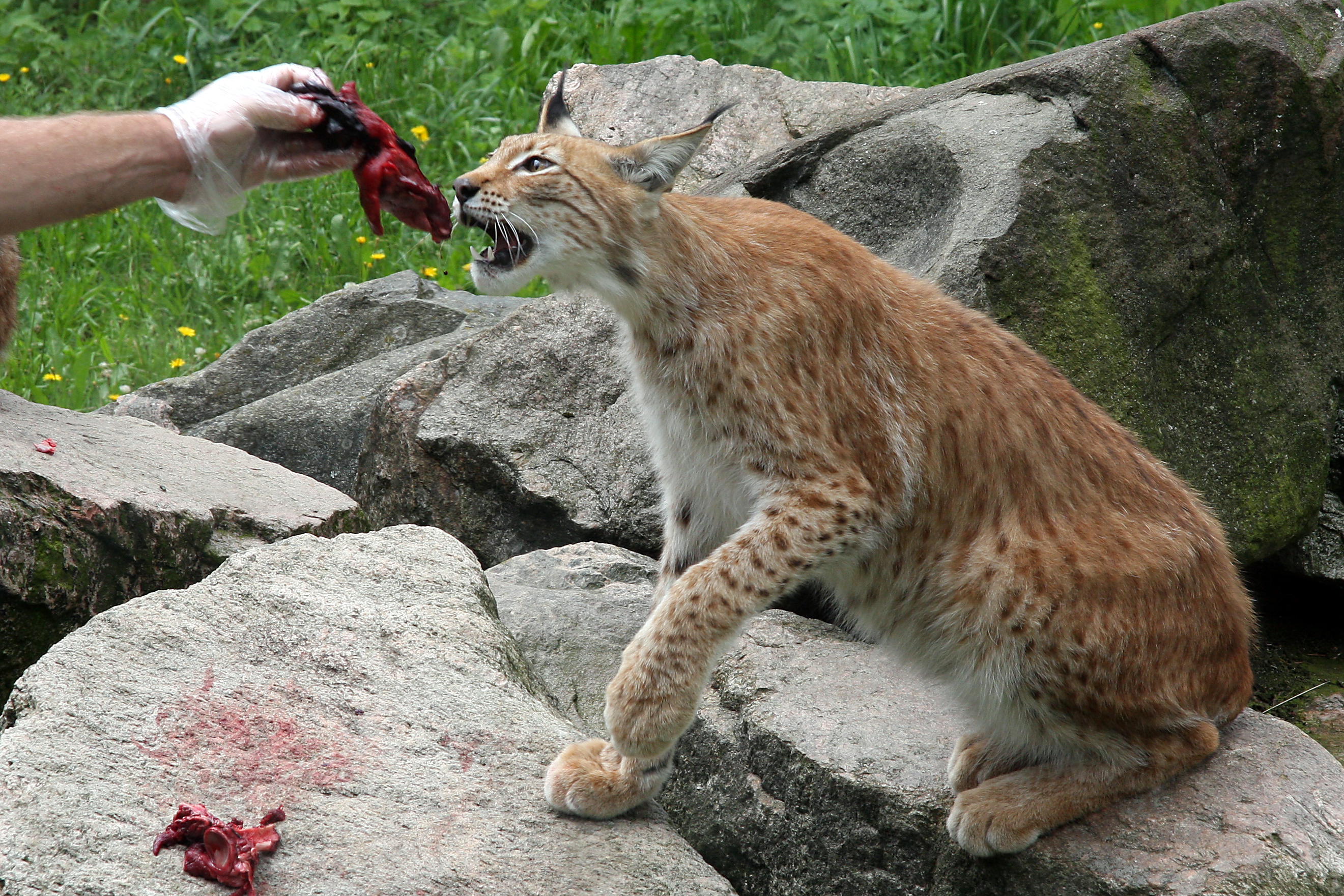 Eurasian lynx at a zoo in southern Sweden, Skånes djurpark.